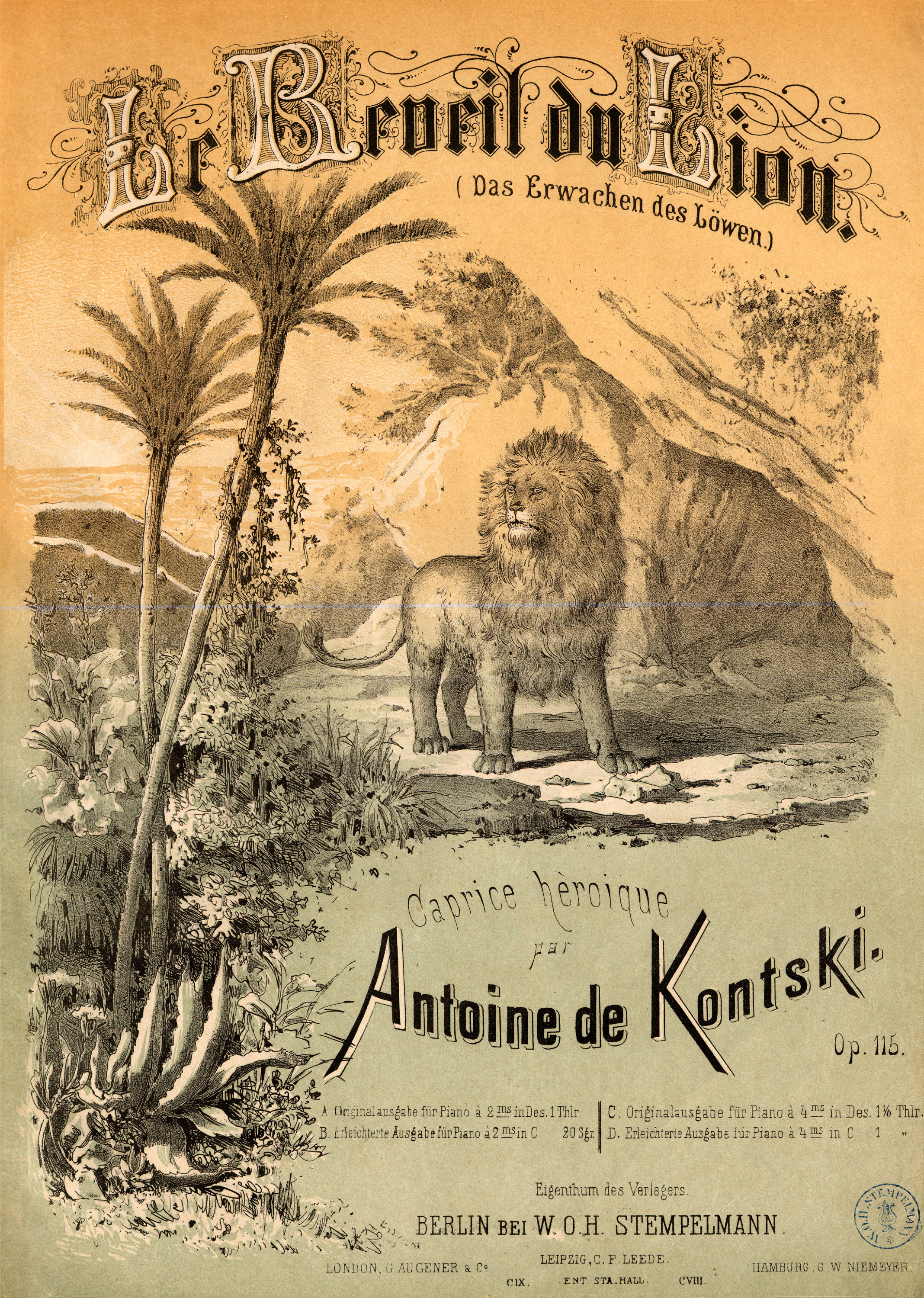 The Awaking of a Lion by Antony Kontski (1817-1899)